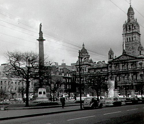 1960s Glasgow George Square in 1966.